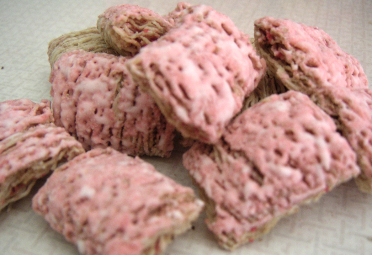 This is a picture I took of Strawberry Frosted Mini Wheats.